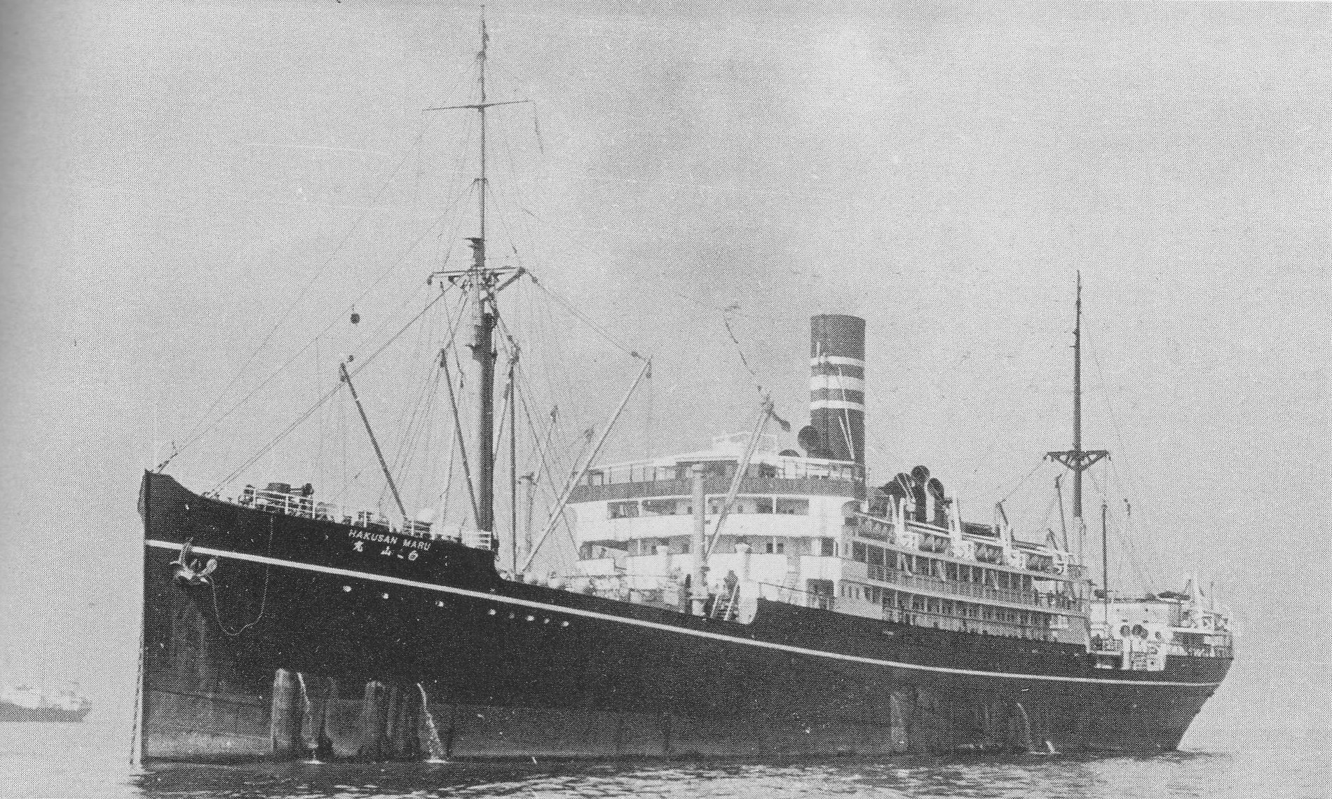 Picture of the NYK Line ship "Hakusan Maru"